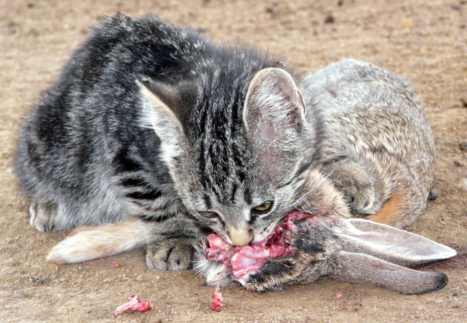 A four month old feral kitten eating an adult sized cottontail rabbit. She starts from the head and consumes everything (including the bones), only leaving the rear legs, the backbone and sometimes the lower jaw.